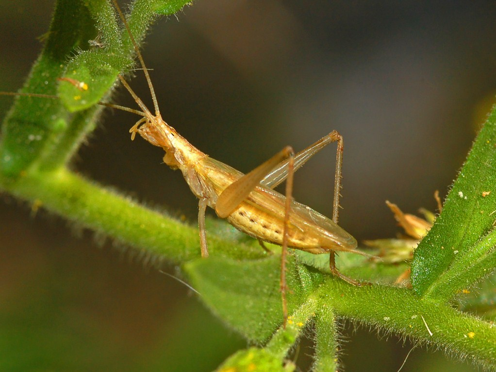 Oecanthus pellucens - Genova, Italy